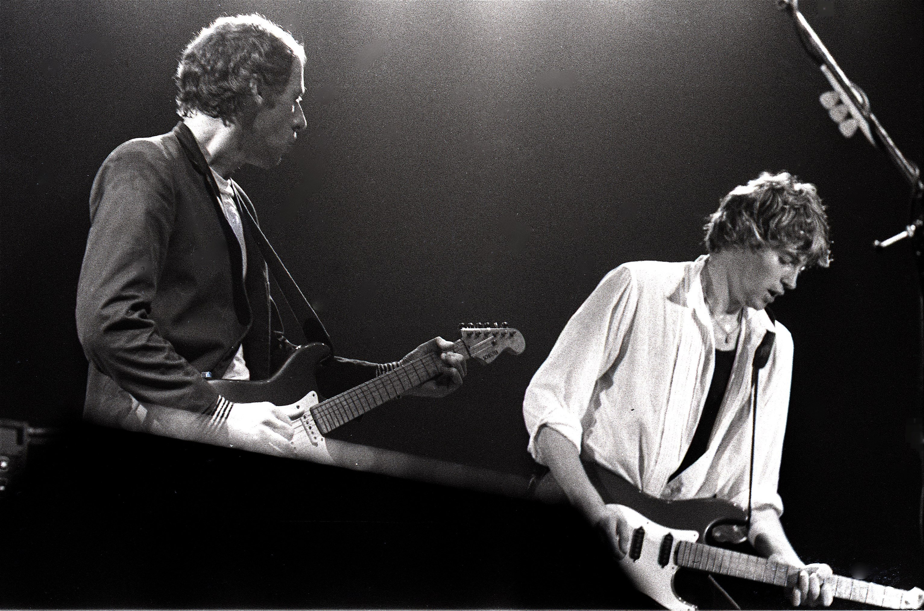 Mark Knopfler of Dire Straits Live in Amsterdam 1981, at the Jaap Edenhal. We stood right in front of the stage and I shot this with my Praktica EE-2 with a 135mm lens. One of my first concerts ever, I was about 13.